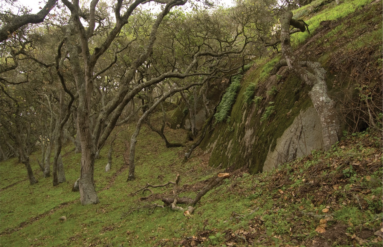 Oak forest understory habitat of Illacme plenipes: base of sandstone pinnacle, where specimens were found.